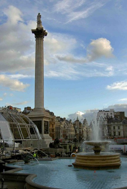 Trafalgar Square